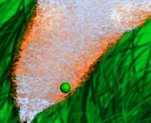 particles system